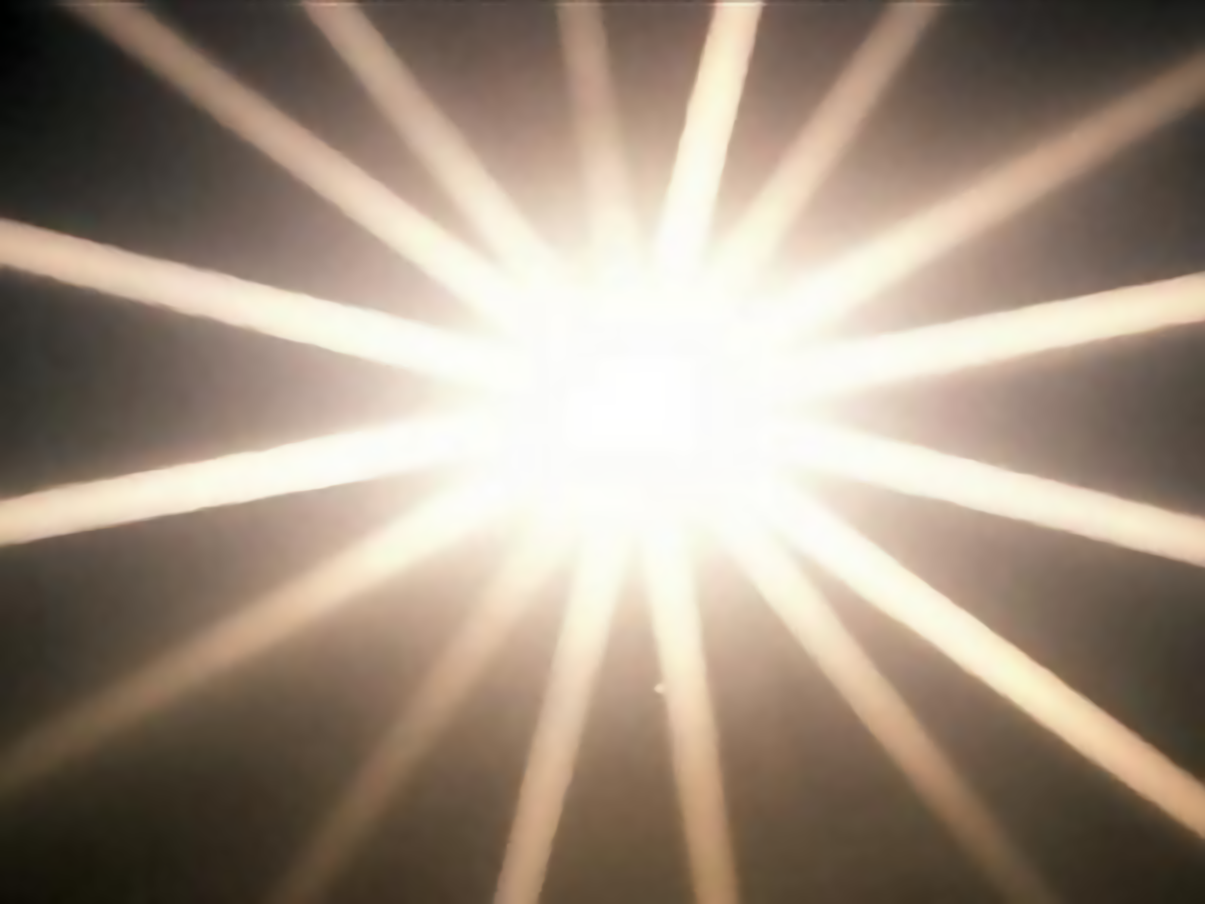 Emanation of light